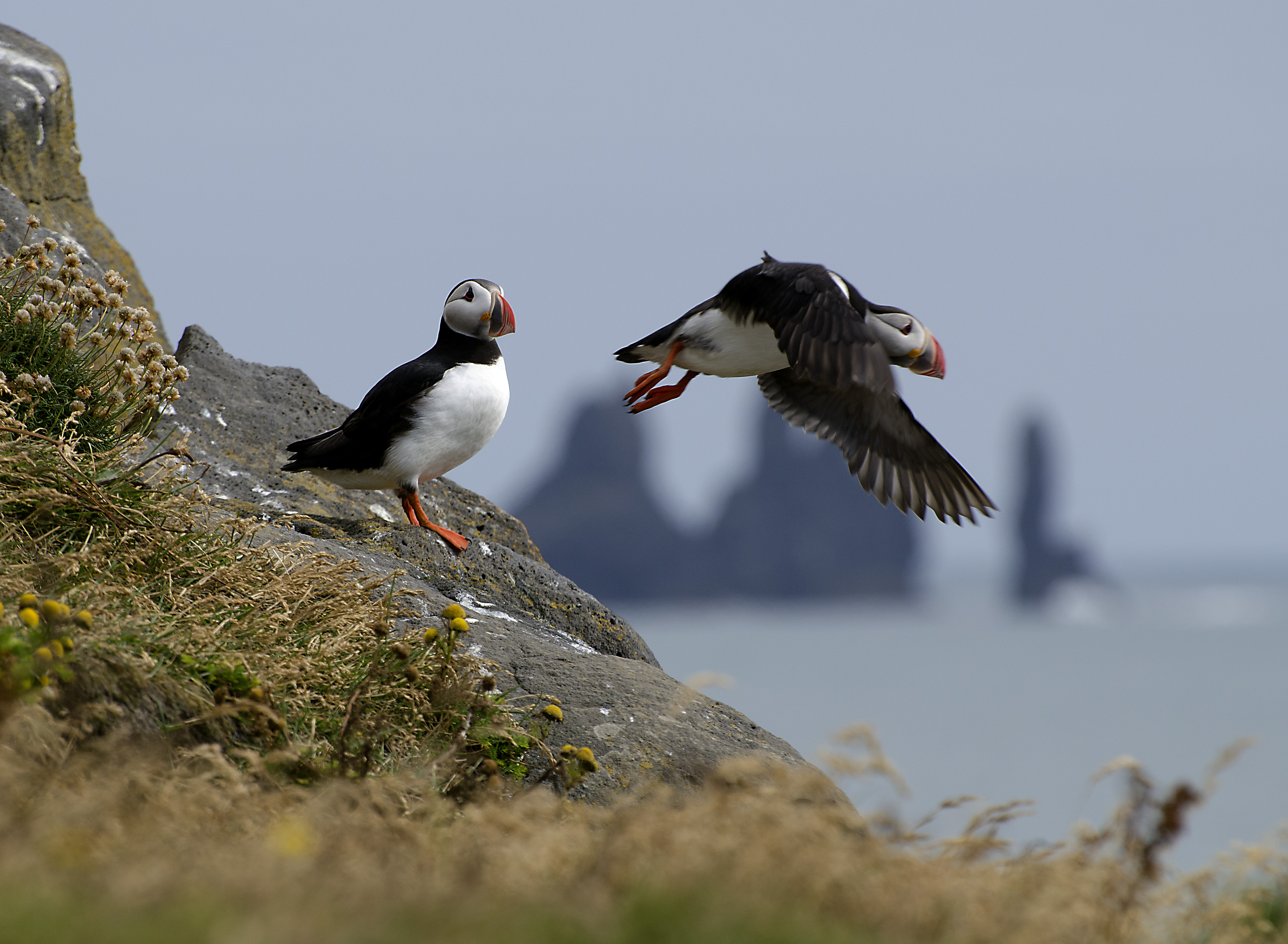 Papageitaucher (Fratercula arctica) bei Dyrhólaey, Island